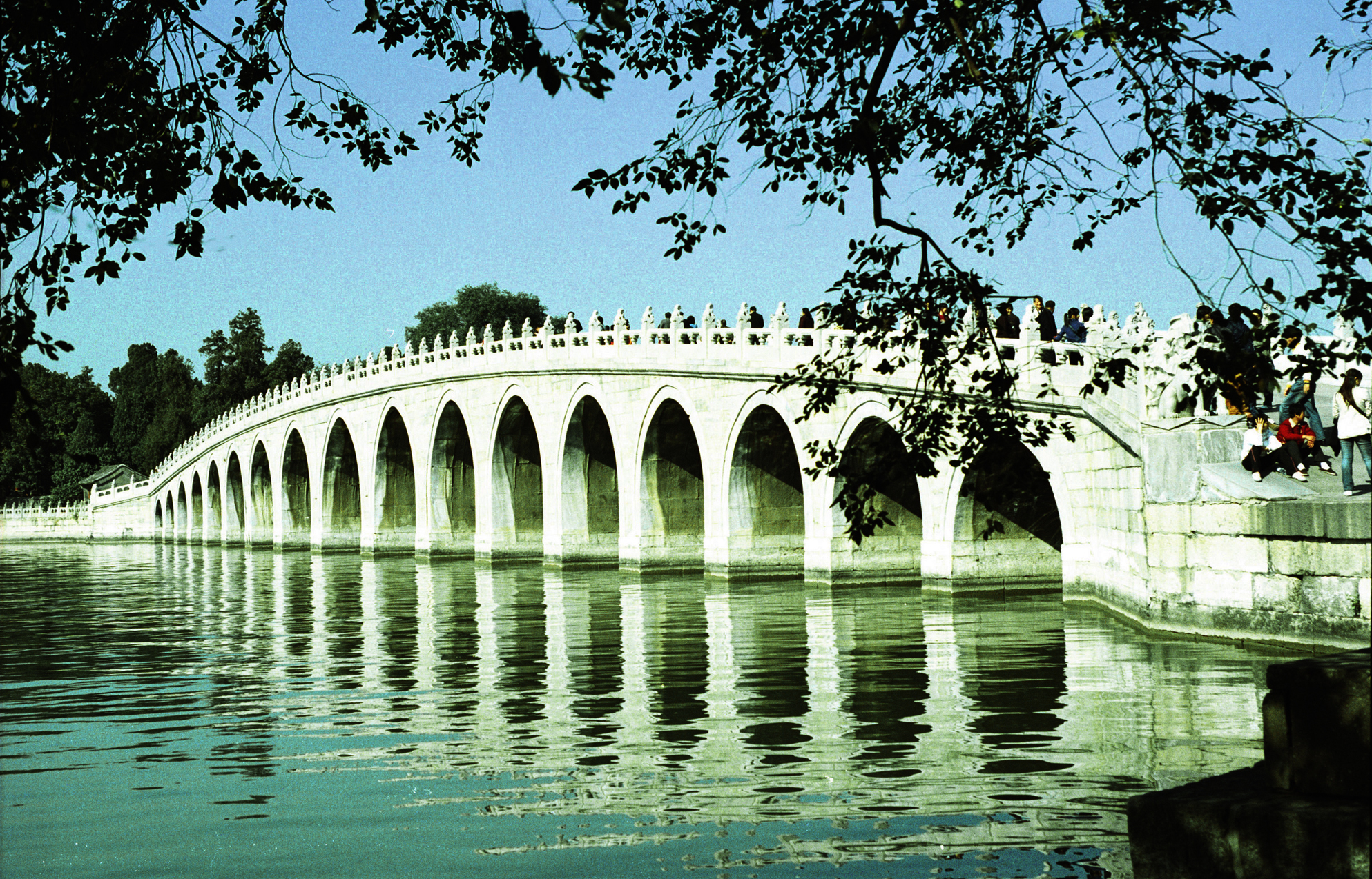 17 arch bridge, Summer Palace,十七孔桥